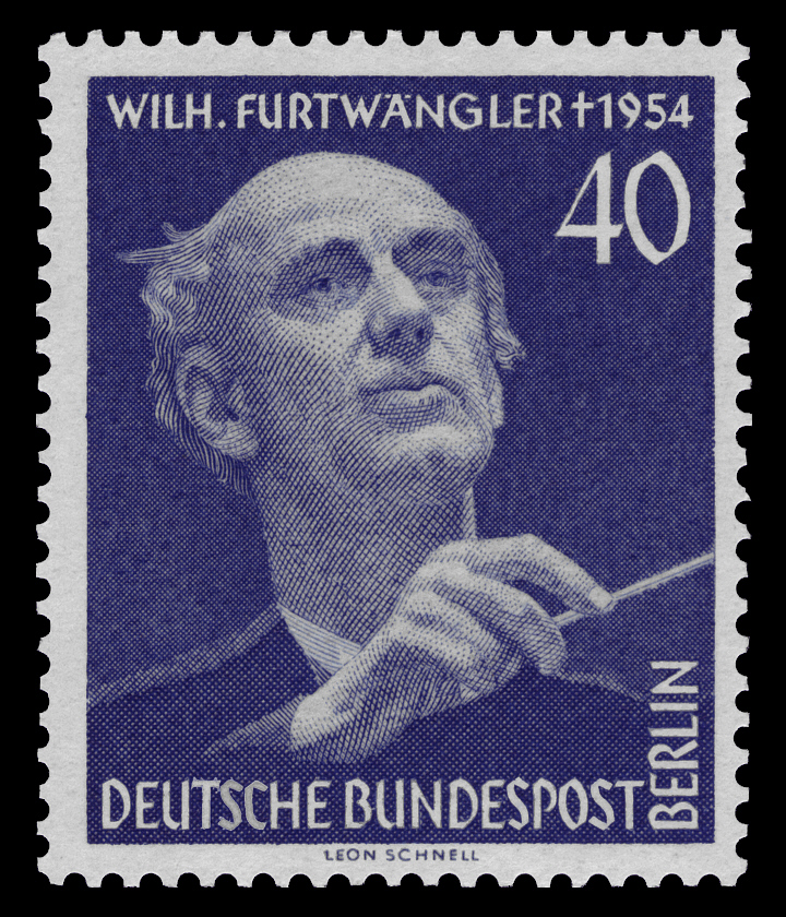 1st day of death of Wilhelm Furtwängler (1886–1954) Graphics by Schnell Ausgabepreis: 40 Pfennig First Day of Issue / Erstausgabetag: 17. September 1955 Michel-Katalog-Nr: 128 (Berlin)